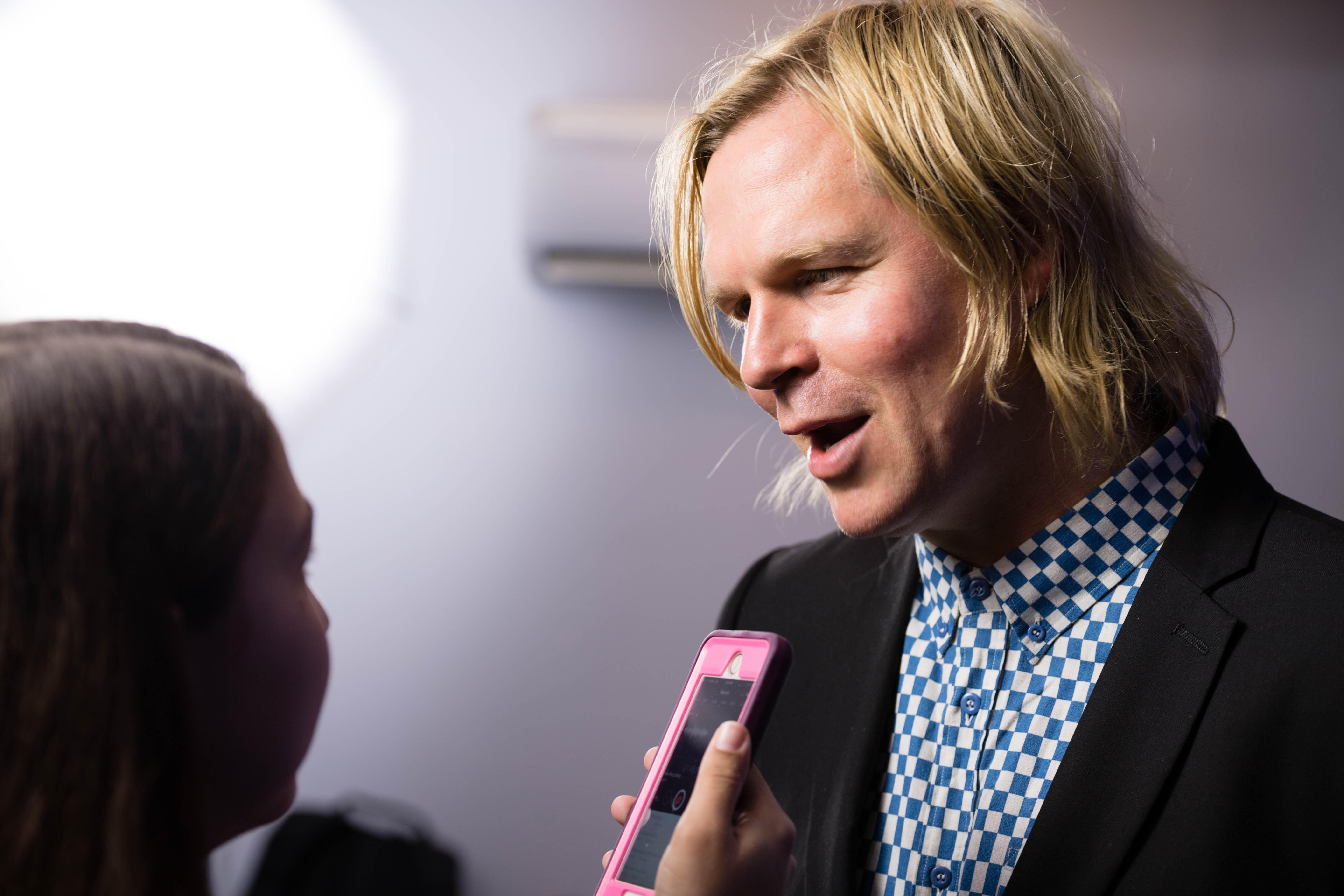 photo by "Neil Grabowsky / Montclair Film"